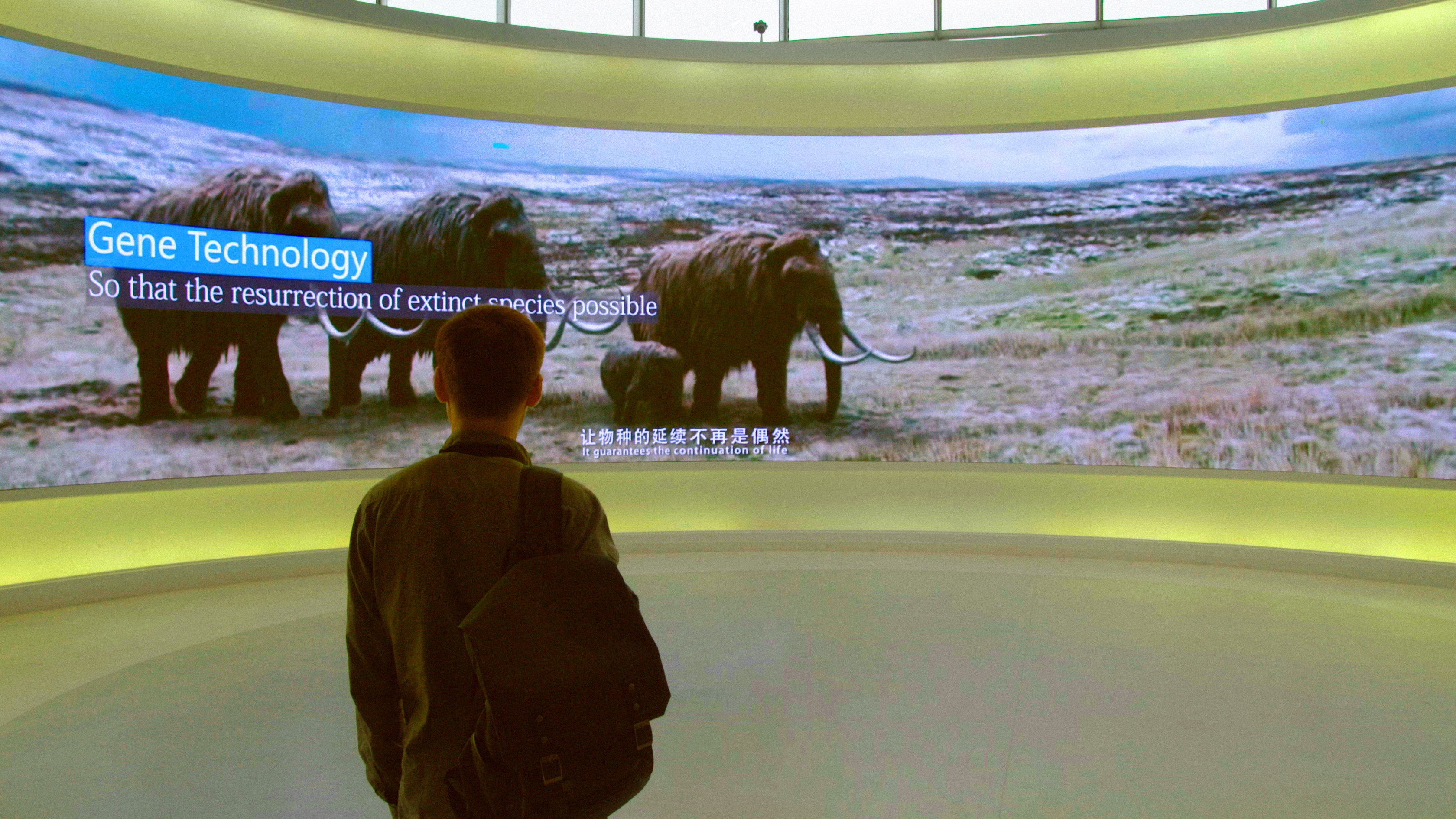 Film still from the documentary Genesis 2.0 by Christian Frei and Maxim Arbugaev